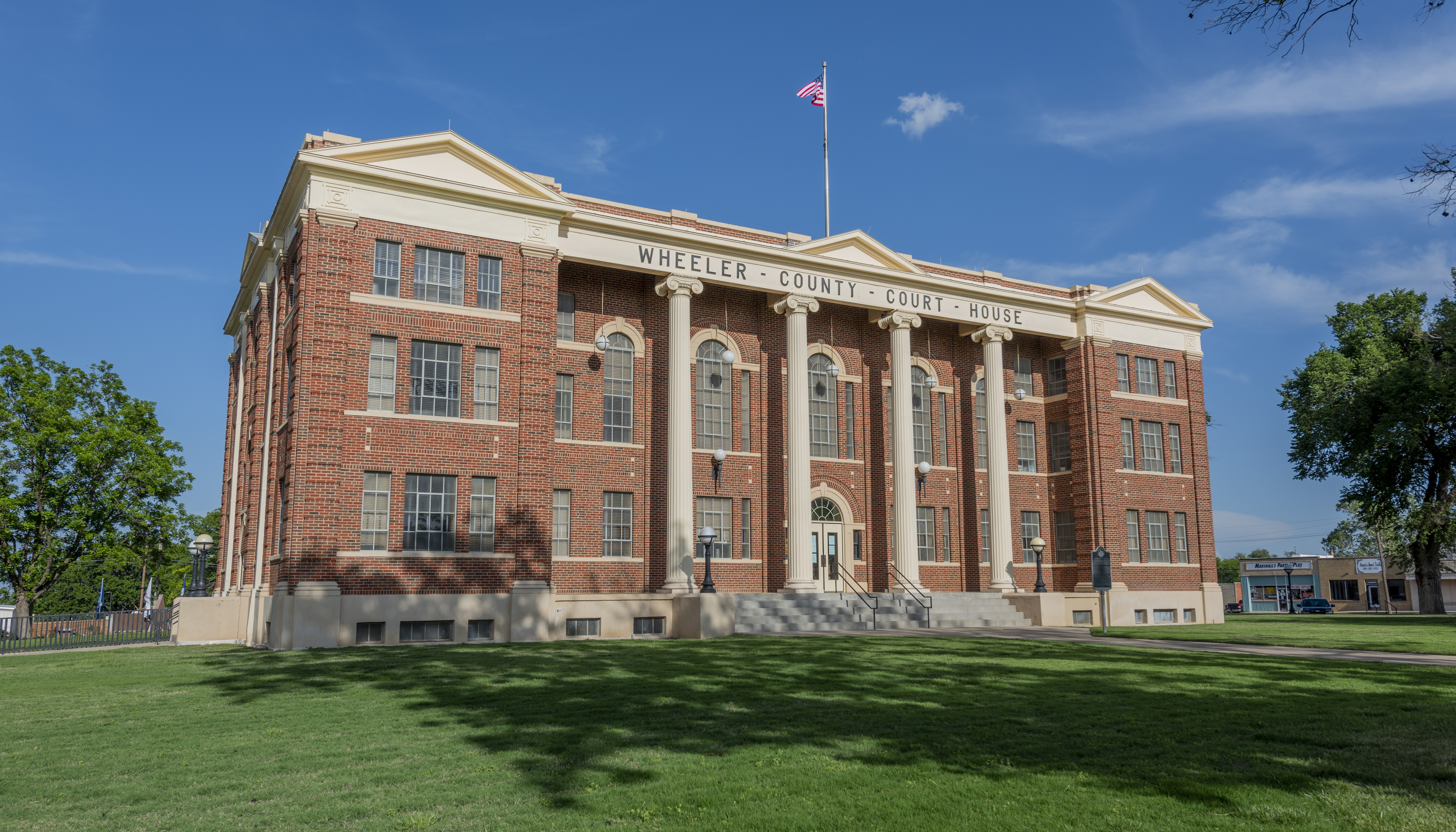 Image of the Wheeler County, Texas courthouse located in Wheeler, Texas. Taken in May 2020.